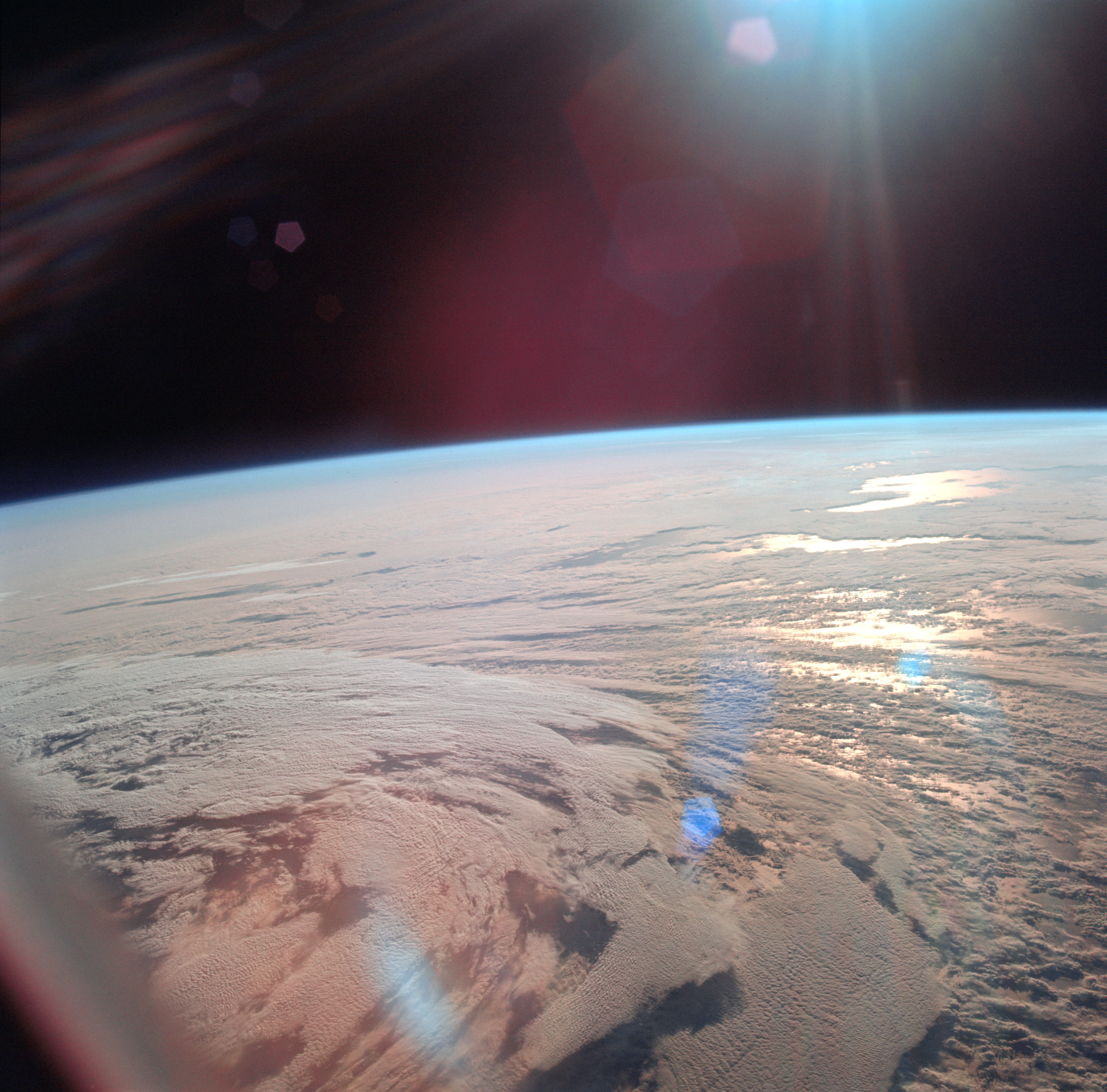 This view of Earth showing clouds over water was photographed from the Apollo 11 spacecraft following translunar injection.